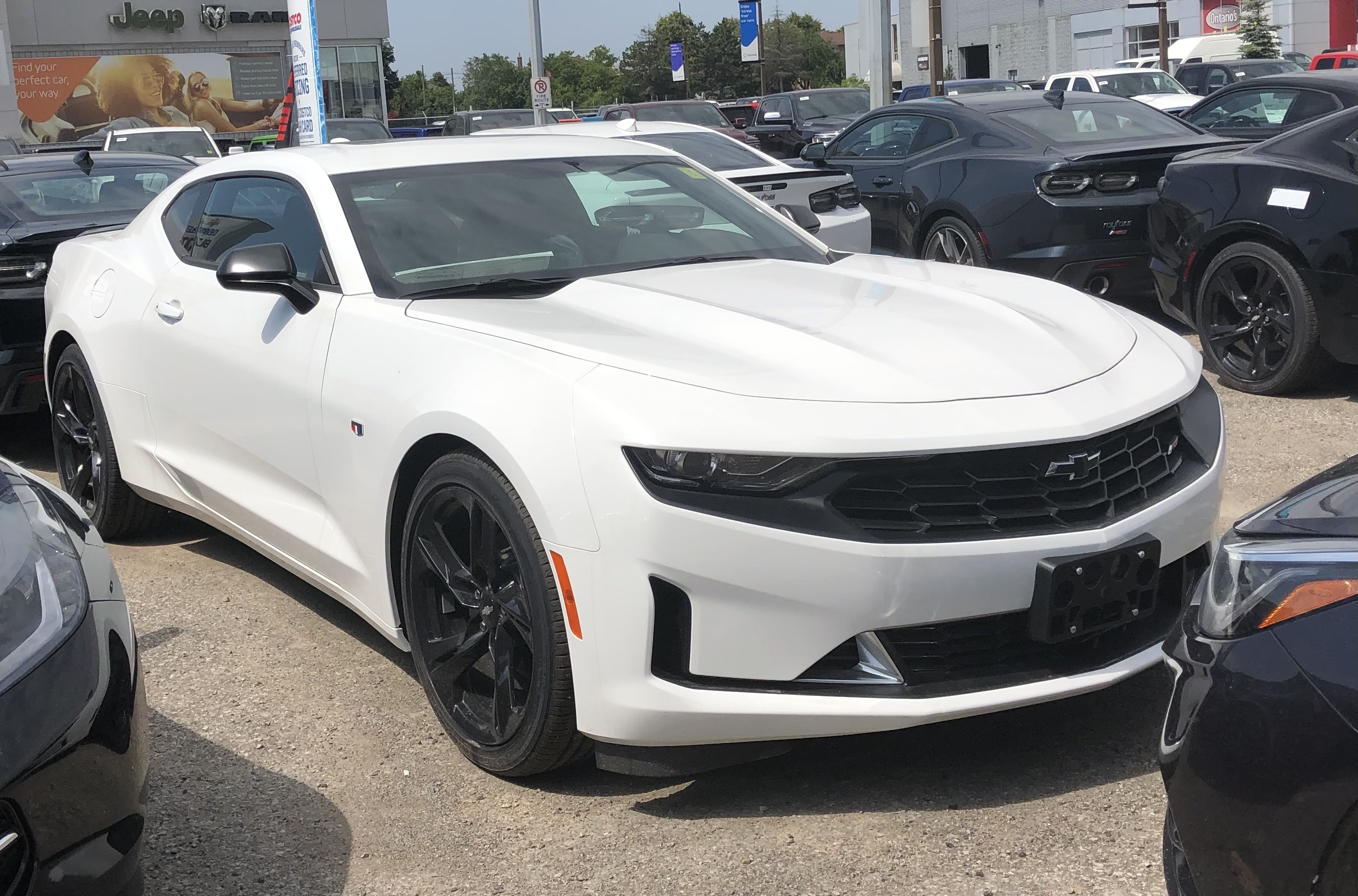 This is a 2020 Chevrolet Camaro Spotted in Vaughan, Ontario